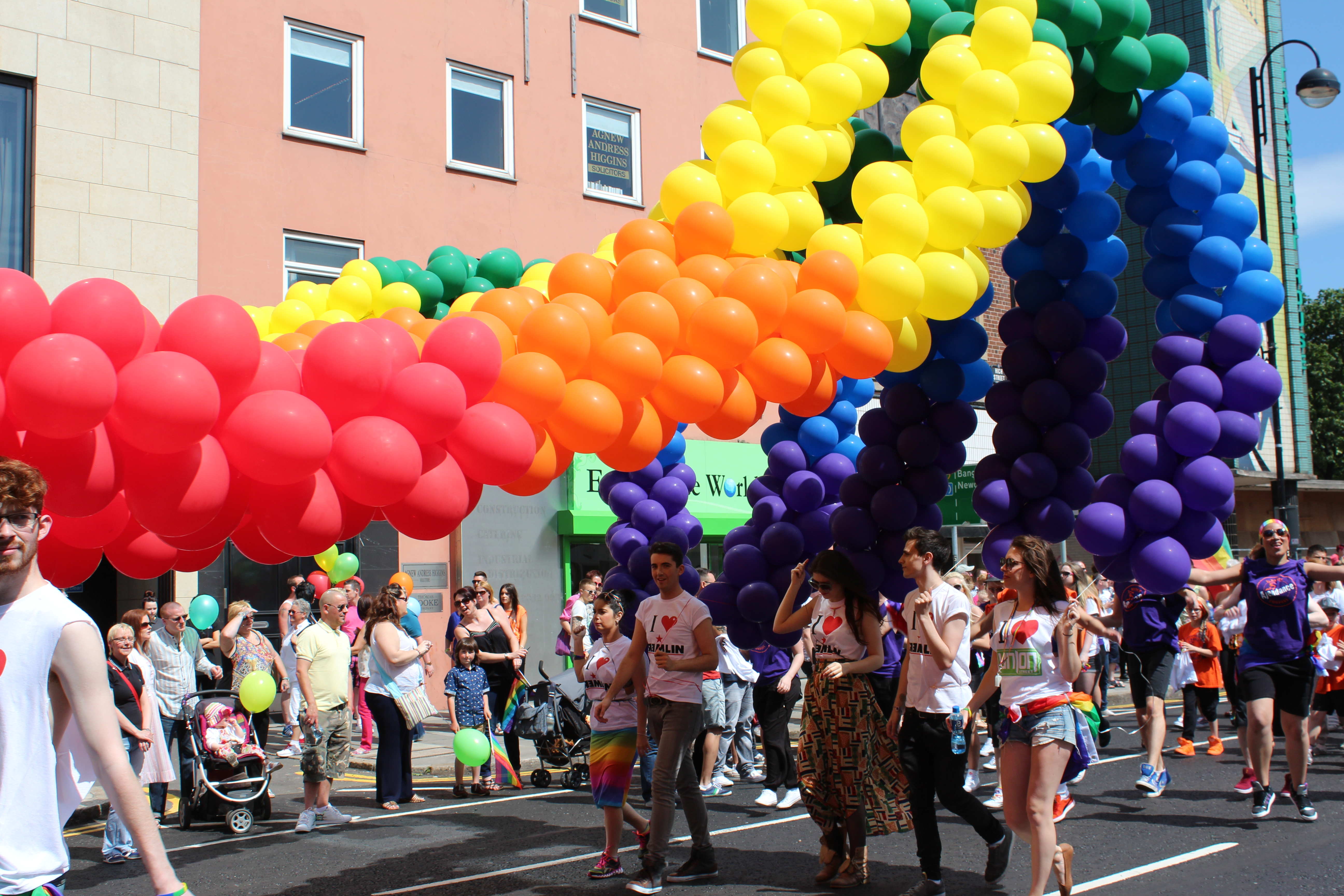 Belfast Pride Parade, High Street, Belfast, Northern Ireland, July 2013